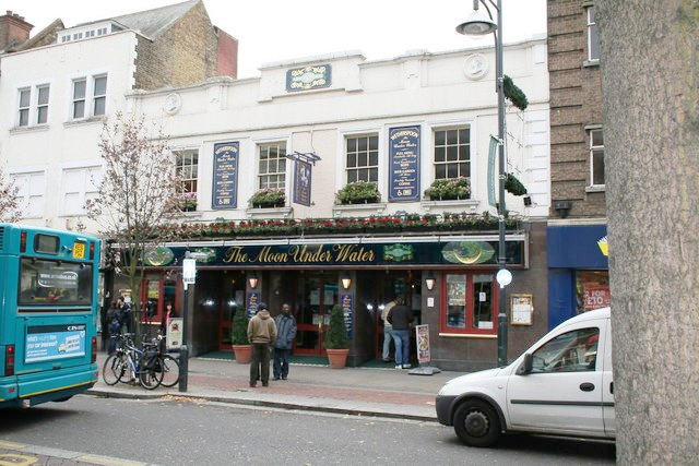 The 'Moon Under Water', High Street, Watford This is a Wetherspoon's pub. The chain have a policy of no juke-boxes or other music, and there is always real ale available. Almost all the pub names contain the word 'moon'.